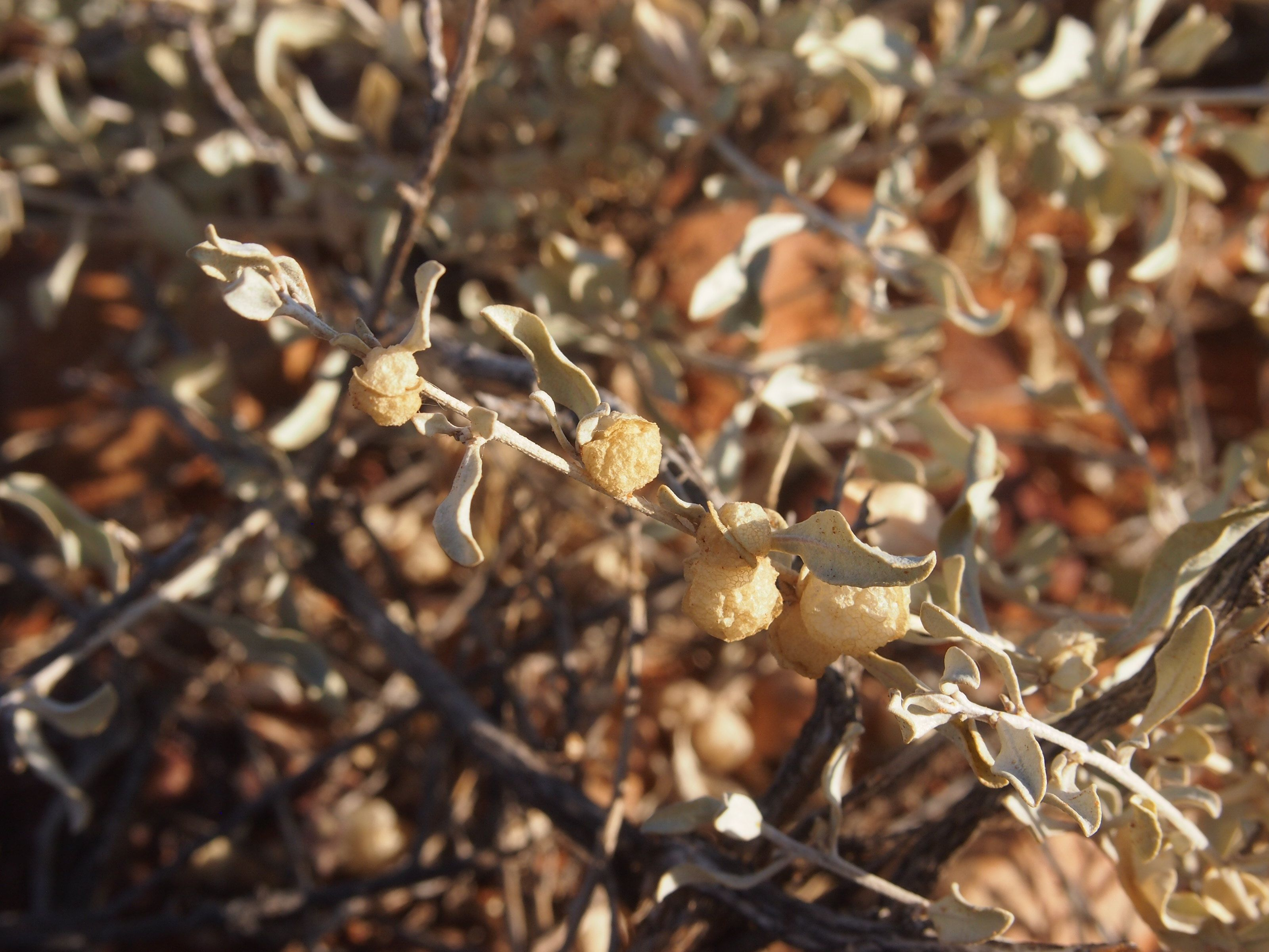 Atriplex vesicaria fruit